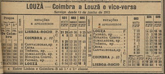 Timetable for the trains in the Ramal da Lousã (Lousã Branch Line), in Portugal, on the 15th of June 1913. This image was published on the Guia Official dos Caminhos de Ferro de Portugal No. 168, of October 1913, and scanned by the Biblioteca Nacional de Portugal.